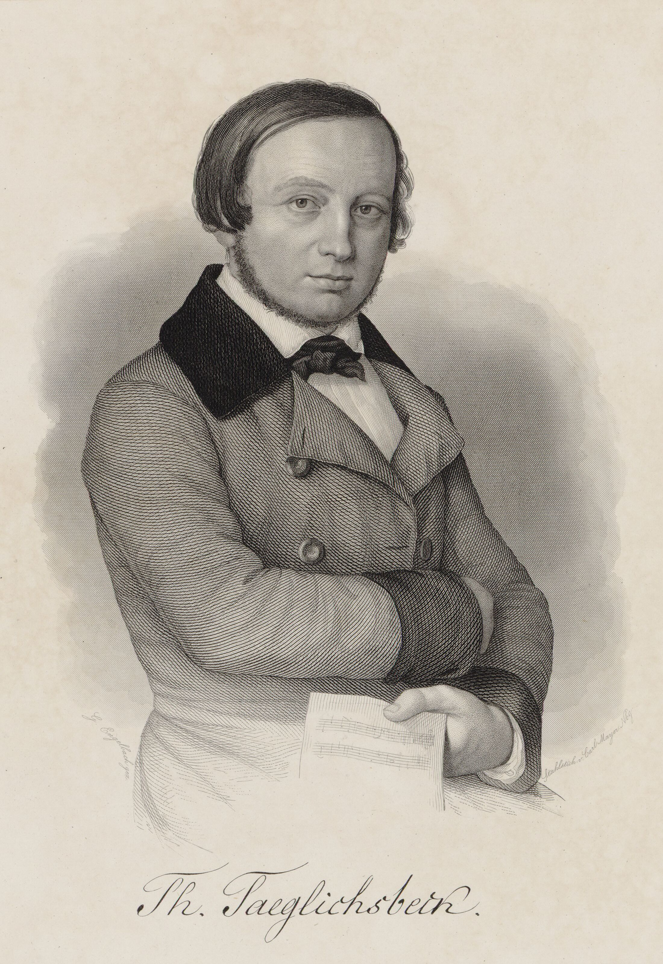 German violinist and composer Thomas Täglichsbeck (1799-1867) by Carl Meyer (1798-1868).